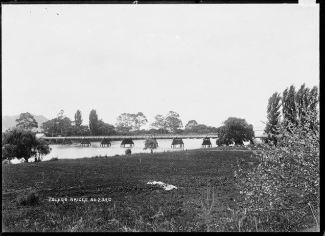 View looking east showing the Uawa River and bridge leading to the Tolaga Bay settlement. A ploughed field is in the immediate foreground. The sea can be glimpsed between trees on the right. Photograph taken ca 1900-1930 by William Archer Price.